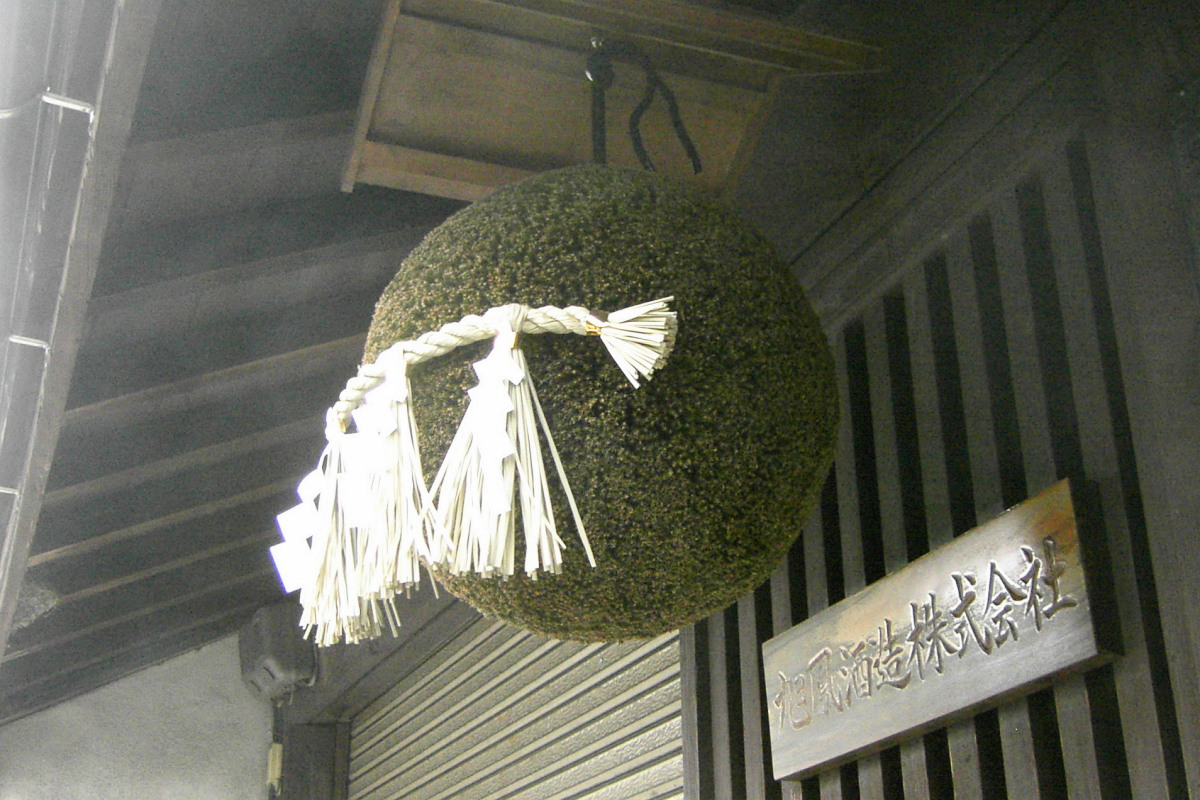 旭鳳酒造株式会社(blog) See where this picture was taken. [?]